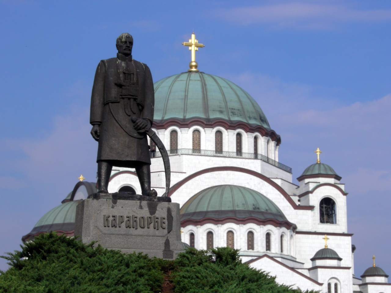 Monument commemorating Karađorđe Petrović in front of Cathedral of Saint Sava in Belgrade.